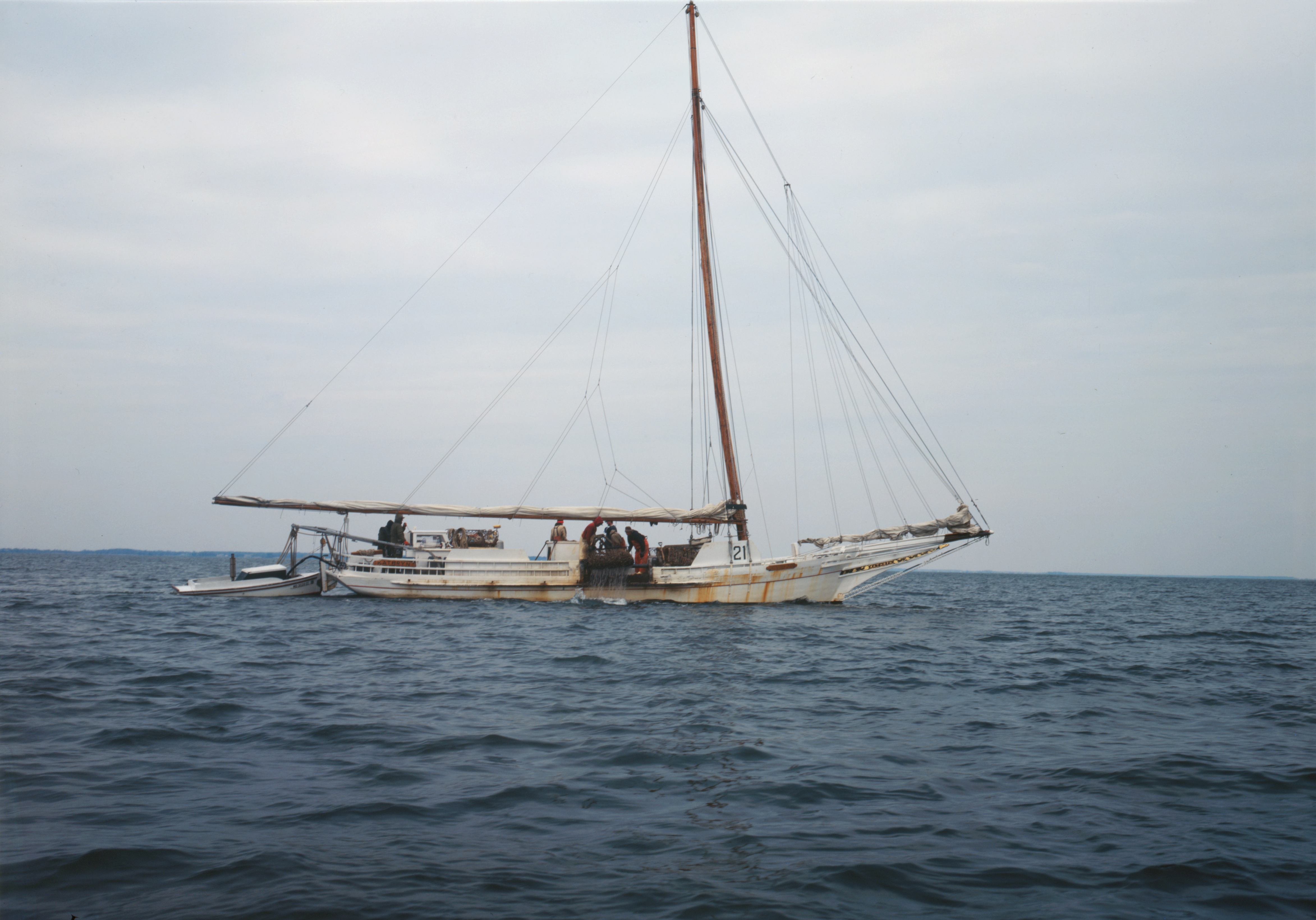 KATHRYN-Two-sail Bateau Skipjack, Dogwood Harbor, Chesapeake Bay, Tilghman vicinity (Talbot County, Maryland) (cropped)